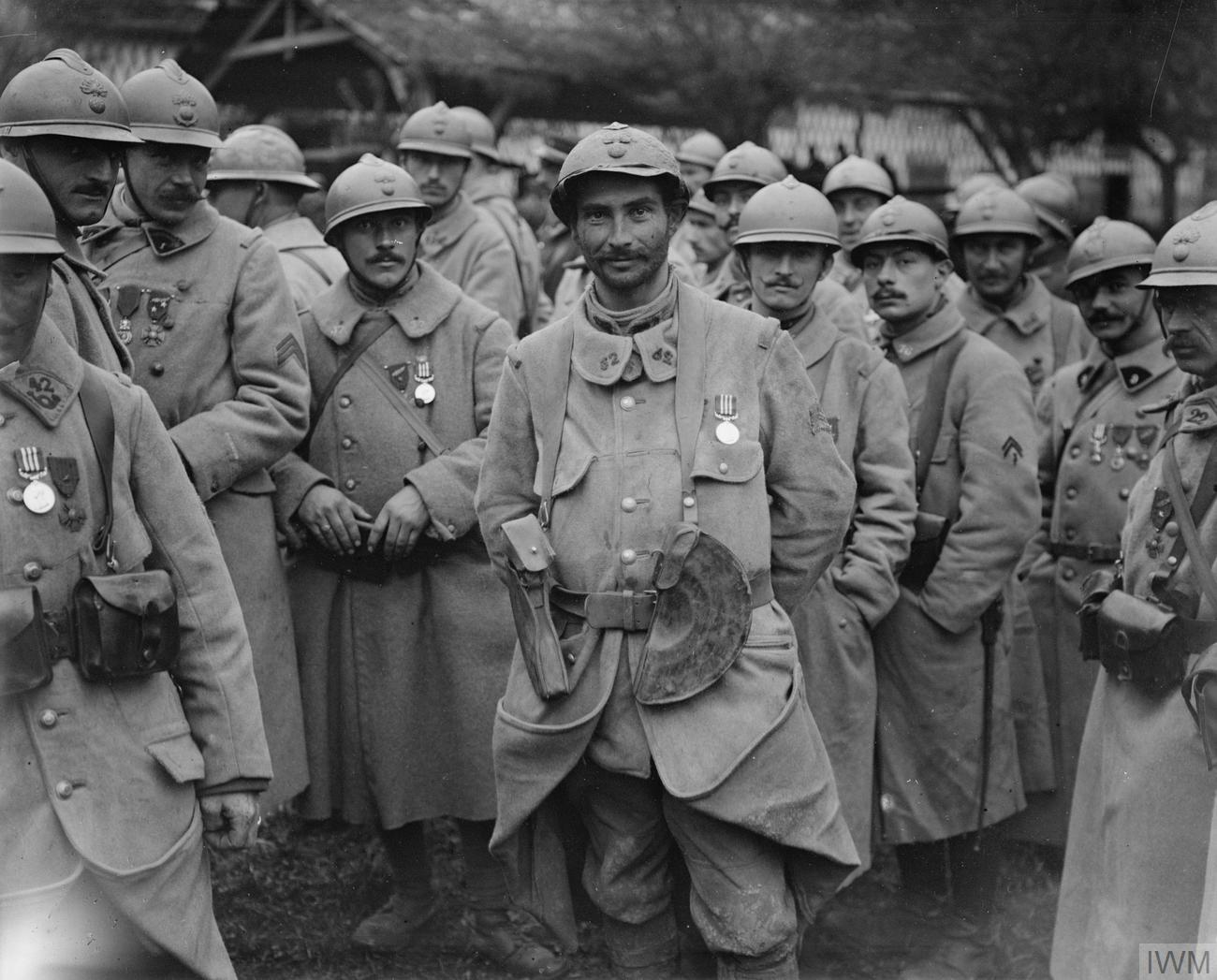 The Battle of the Somme, July-november 1916 French soldiers who came out of the trenches to receive British decorations (Military Medals) which they are seen wearing. Note Chauchat machine gun magazines on the belt of the soldier in the middle.